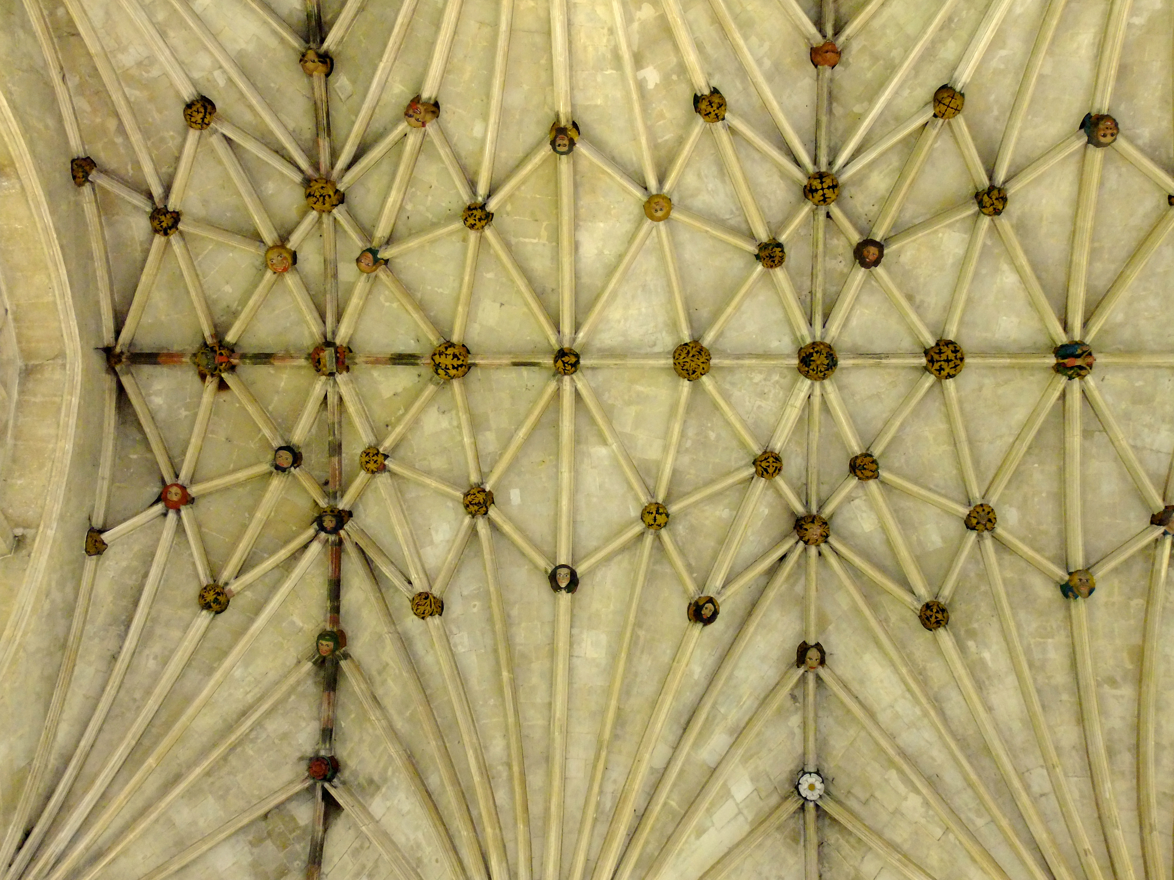 Ceiling of Lady Chapel, Ely Cathedral